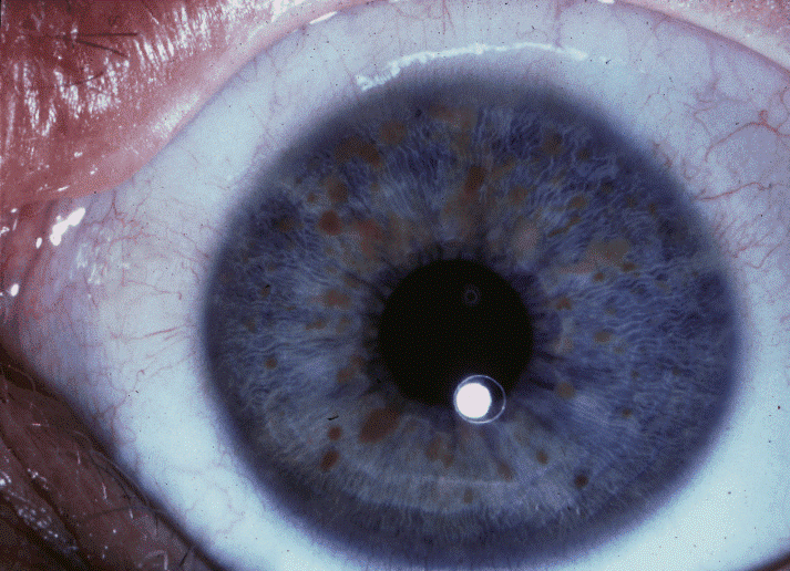 The patient was a 14-year-old male with pulsating exophthalmos of the left eye and poor vision of this highly myopic left eye. There was also some ptosis of the left eye with mild puffiness. Upward gaze of the left eye was limited. Slit lamp examination showed multiple, slightly raised nodules of the right iris